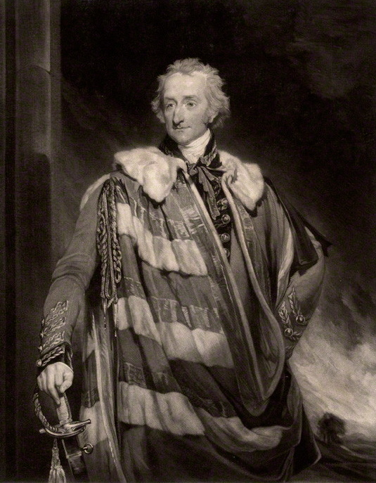 Portrait of John Egerton, 7th Earl of Bridgewater (1753-1823)